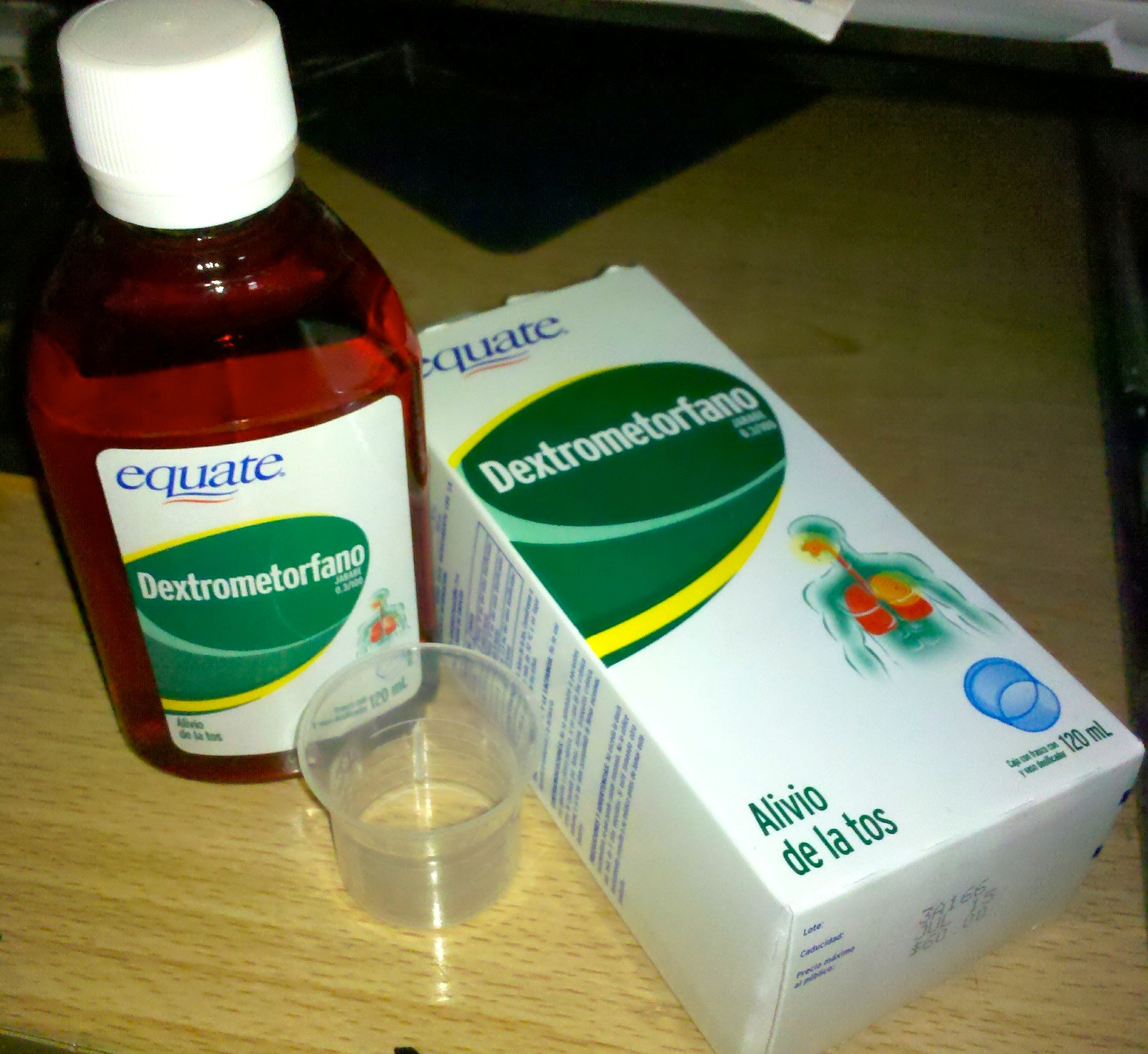 Dextromethorphan in it's syrup presentation